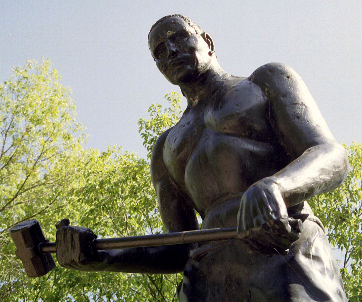 This statue of John Henry (The Steel-drivin' Man of song and legend) stands alongside State Highway 12 south of the town of Talcott, in Summers County, WV, USA. The statue is placed above the Big Bend tunnel on the C&O railroad where many believe the Man vs. Machine competition originally took place.